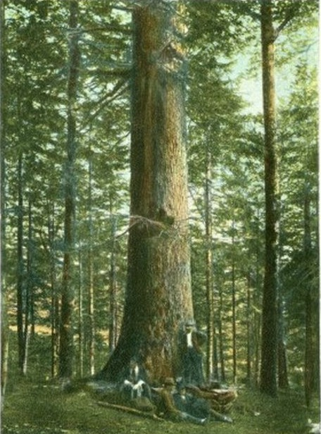 "Thick Fir" (Abies alba), a tree in Babia Góra forest, Zawoja, Poland, cut in 1914; Old post card from 1890